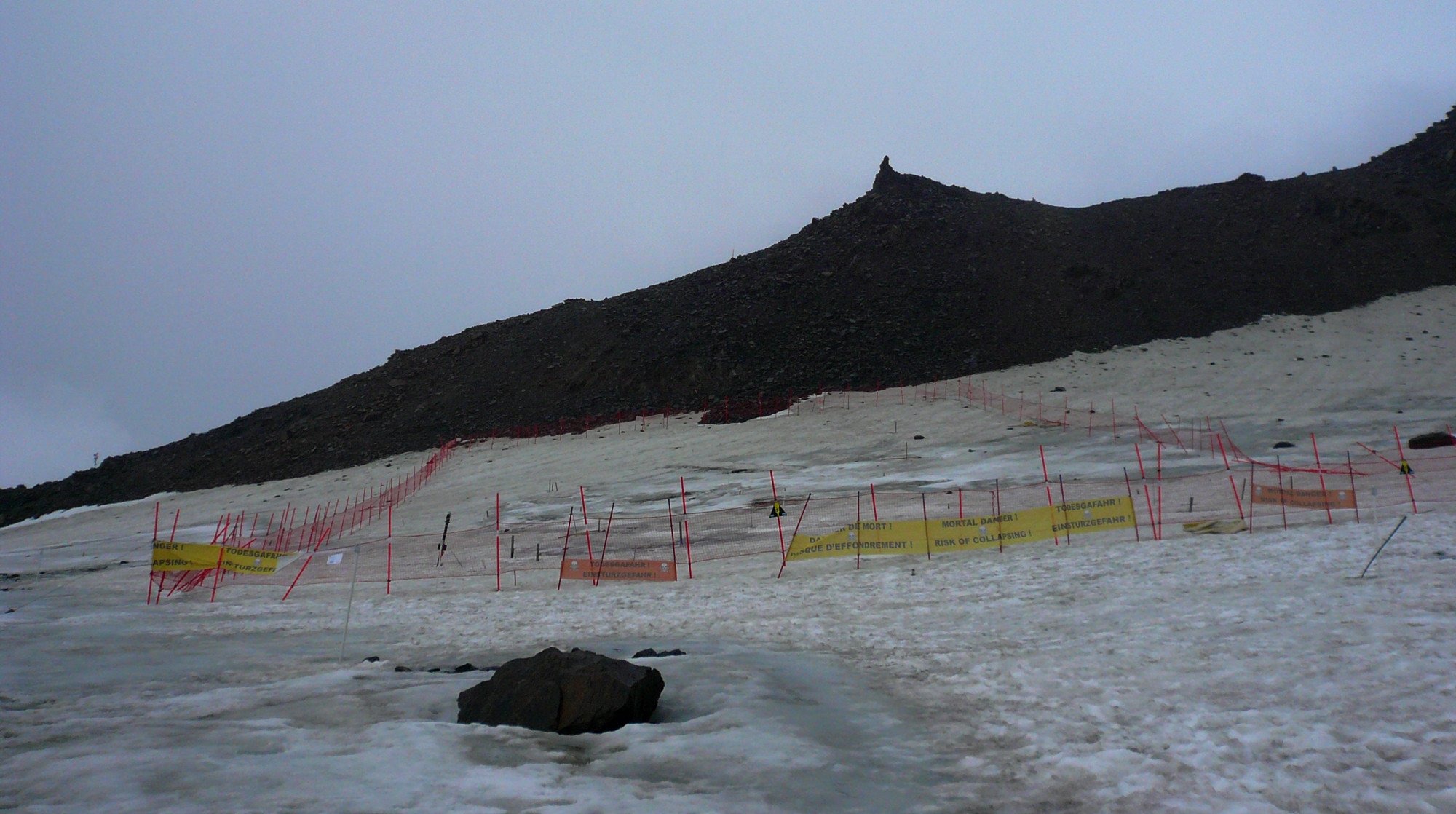 Security work to fence of danger area on the Tête Rousse,glacier, caused by collapse of the surface and the presence of a large pocket of water in the body of the glacier.